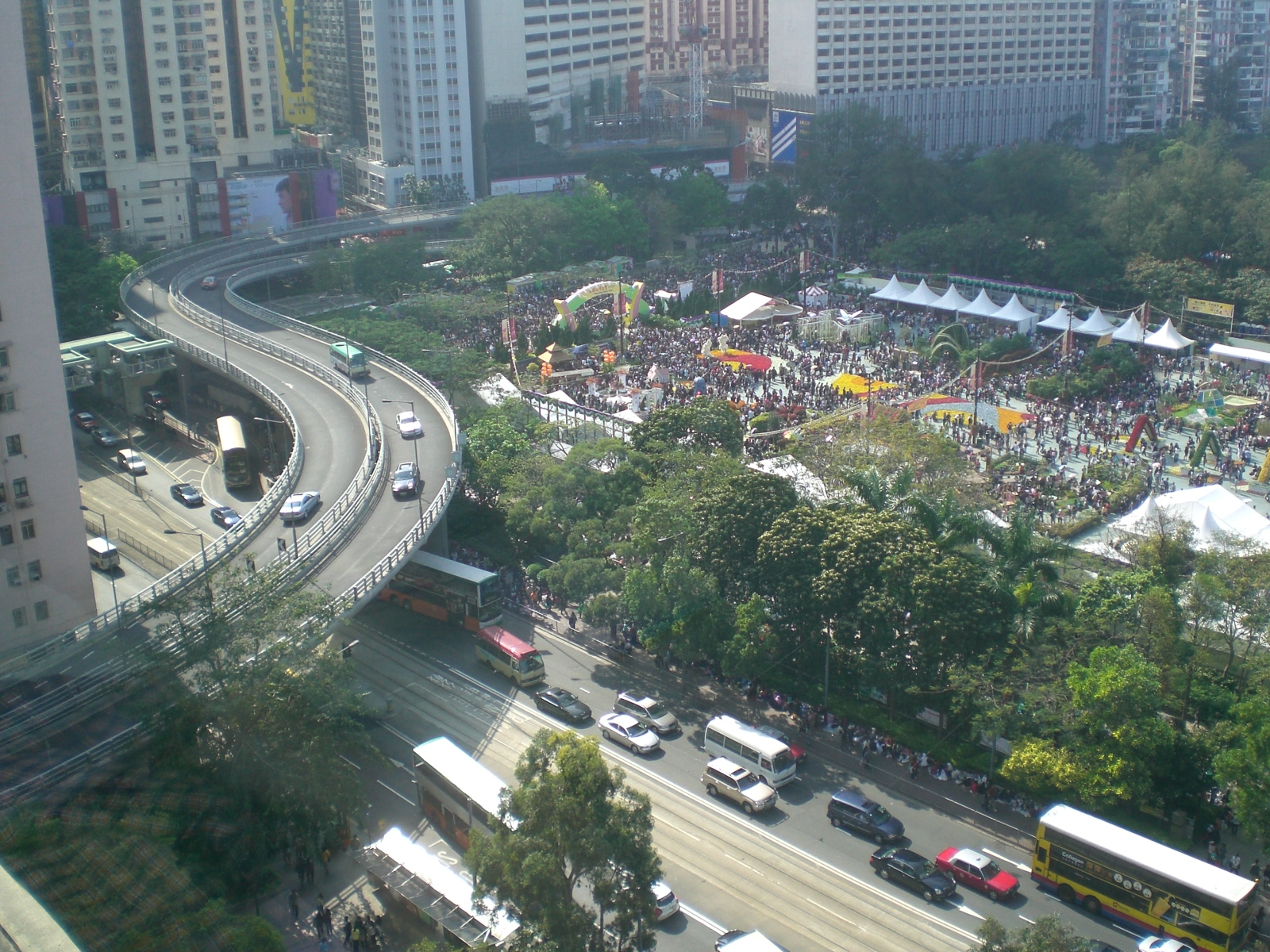 銅鑼灣